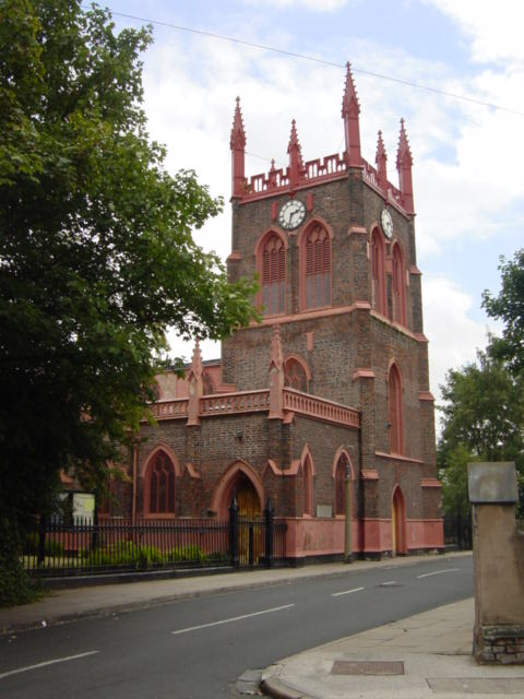 St Michaels in the hamlet church St. Michael's was consecrated on 21st June 1815, its first service being a thanksgiving for victory at the Battle of Waterloo. It was the second of Liverpool's 'cast iron churches'. Its builder, John Cragg, was principal partner in the Mersey Iron Foundry in Tithebarn Street and its architect, Thomas Rickman, was committed to a revival of Gothic design. Cast iron was used where ever possible in the construction of the church, from its frame to intricate Gothic mouldings and ornamental work, both internal and external.